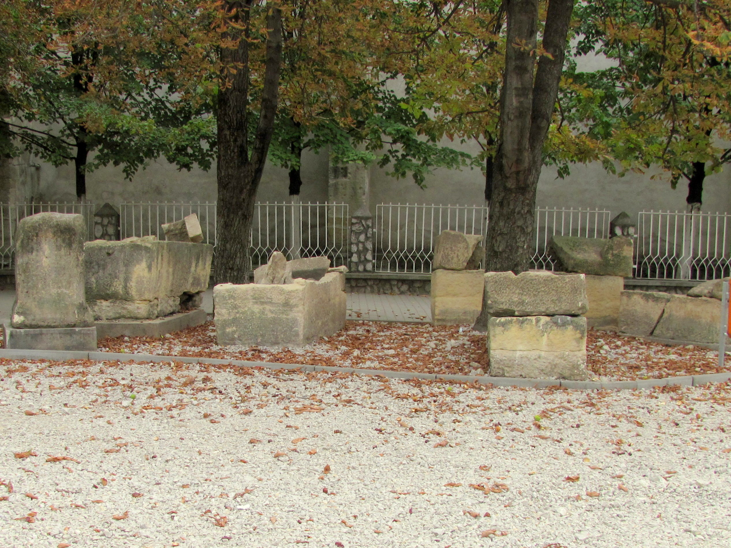 Lapidarium (picture made ​​in 2011).